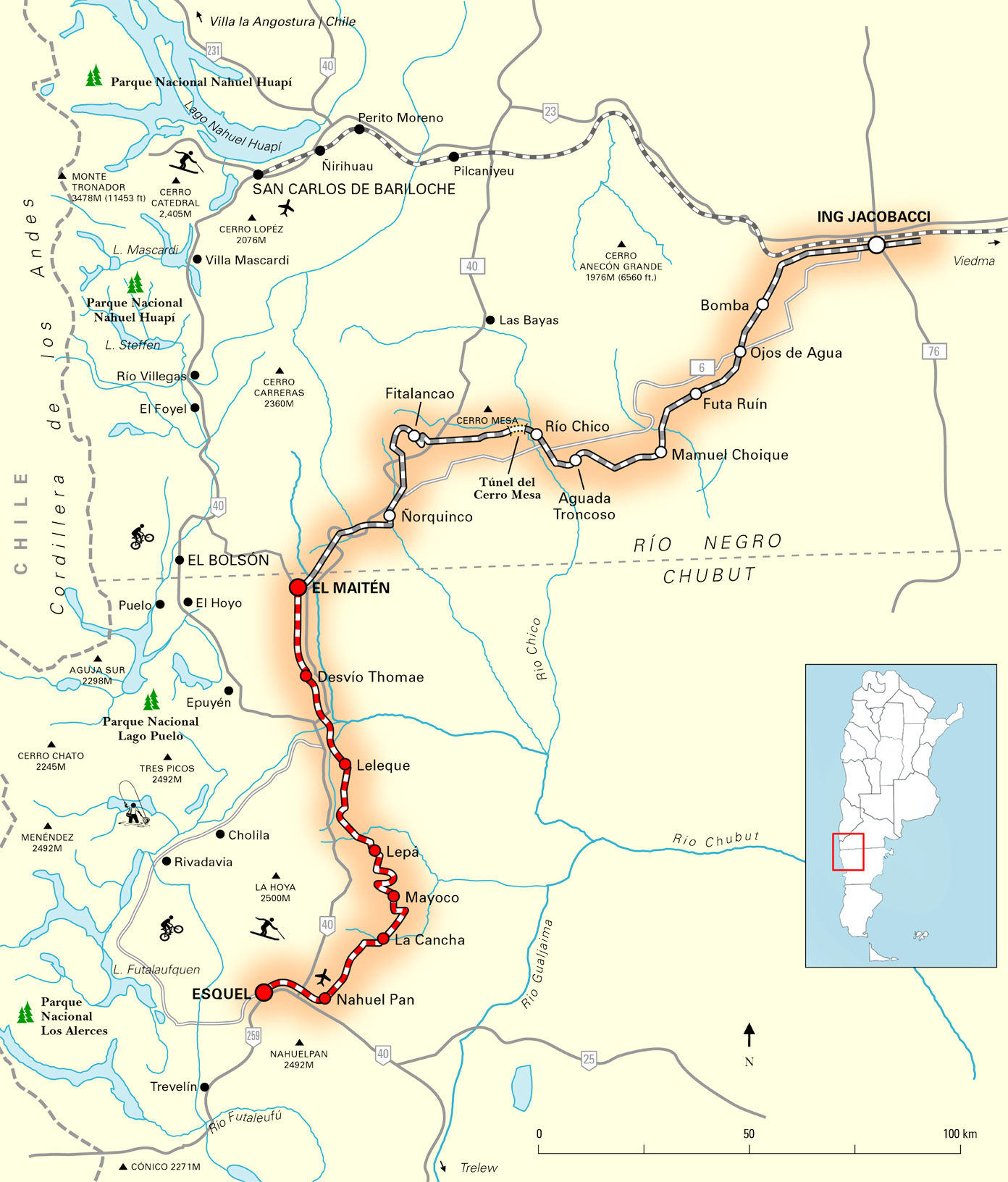 Old Patagonian Express Route Map